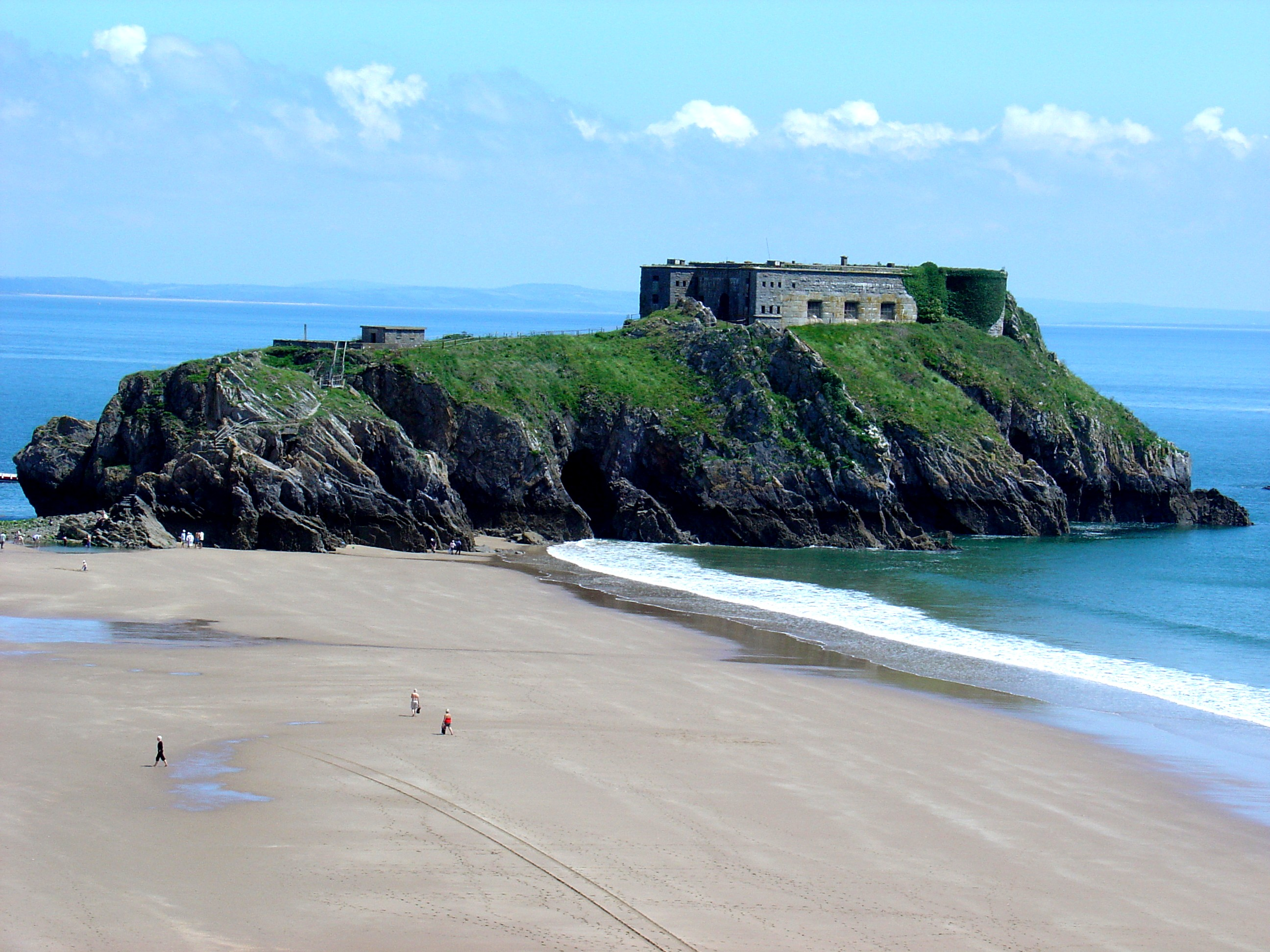 View of St Catherine's Island, Tenby. Taken by Aeronian on 4 June, 2007 using Sony DSC VI digital camera Aeronian's images User:Aeronian/Images